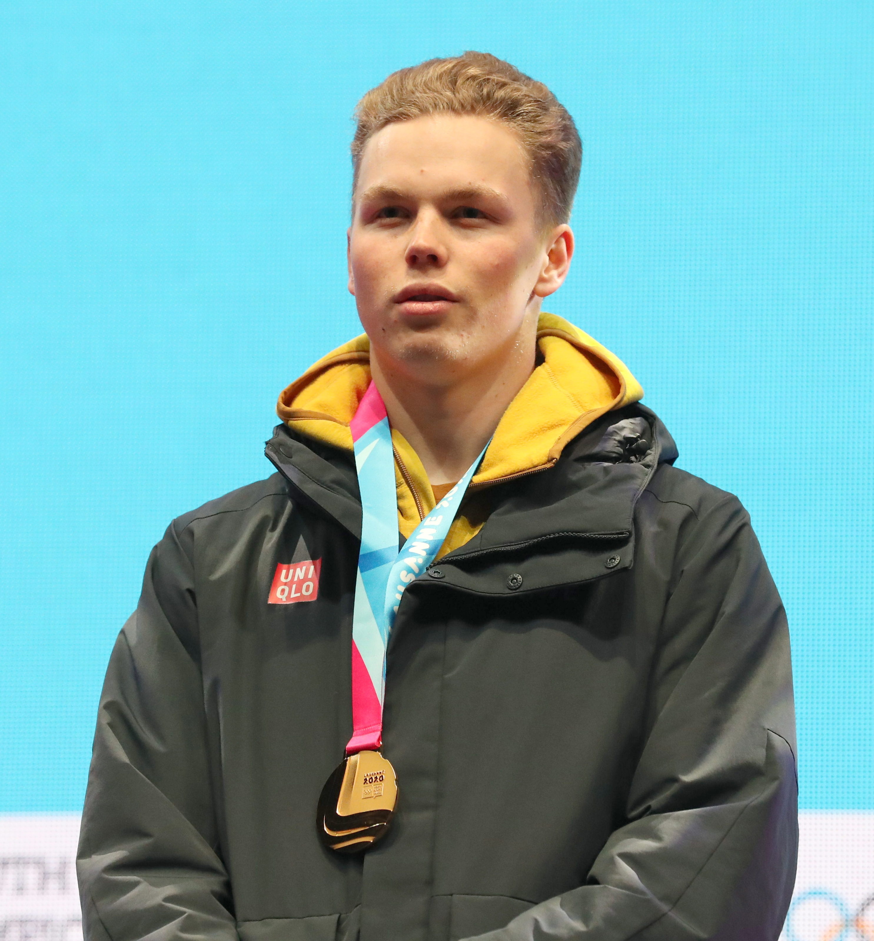 Medal Ceremony Day 6, 2020 Winter Youth Olympics in Lausanne